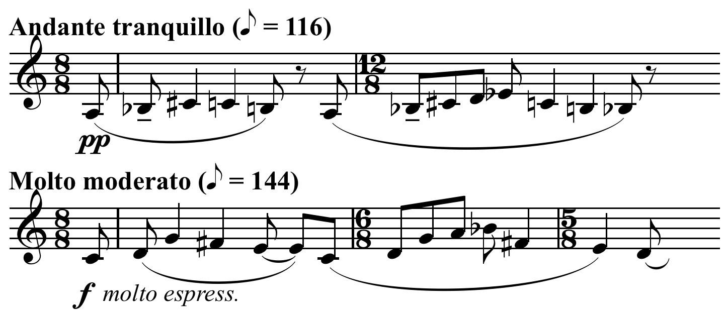 Béla Bartók: Music for Strings, Percussion and Celesta (1936), interval expansion. Created by Hyacinth (talk) using Sibelius 5.